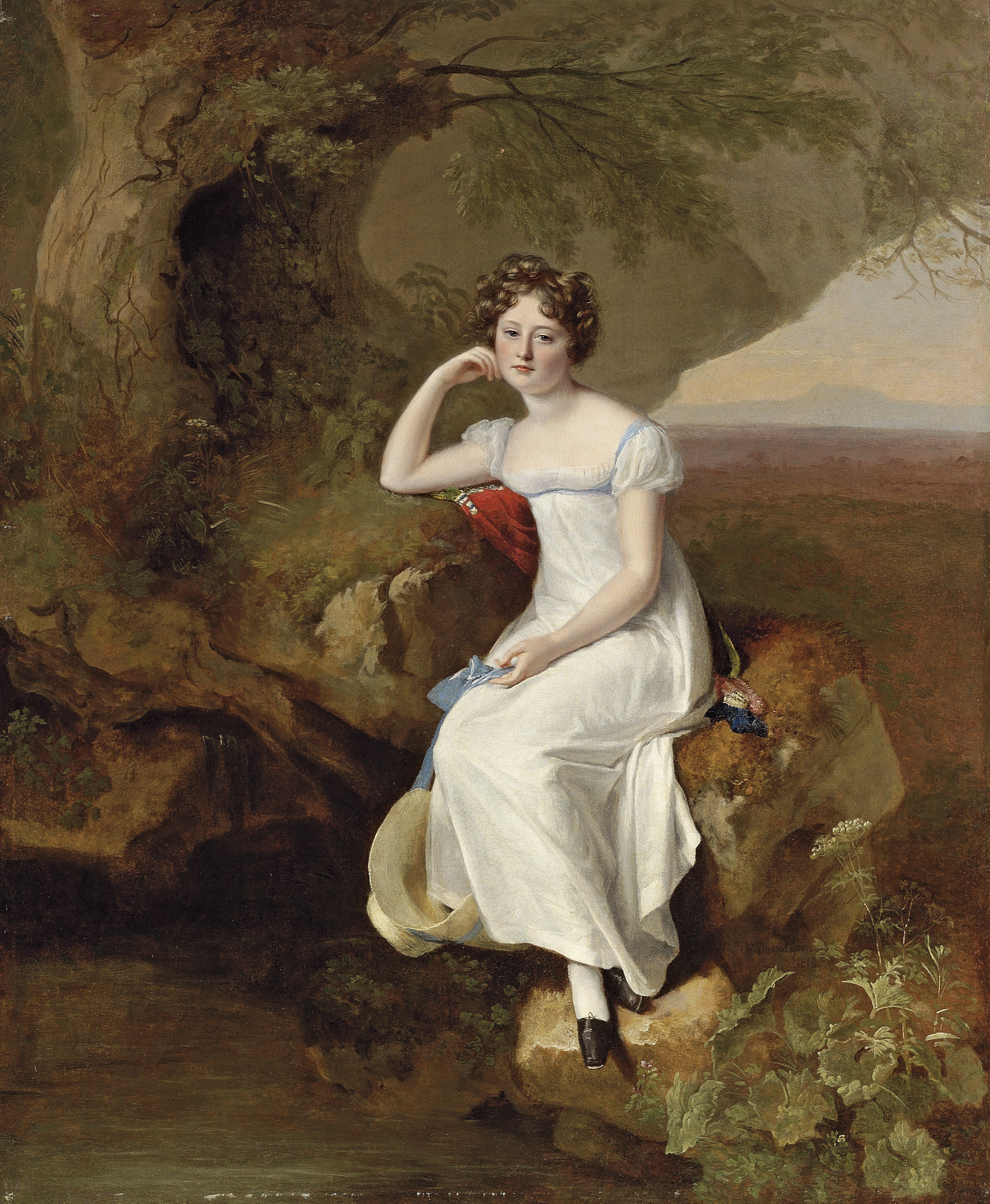 Portrait of Elizabeth Brinckman (also Broadhead, later Lady Dashwood) (1801–1889), daughter of Theodore Henry Broadhead, Member of Parliament, future wife of Sir George Dashwood, 5th Baronet.